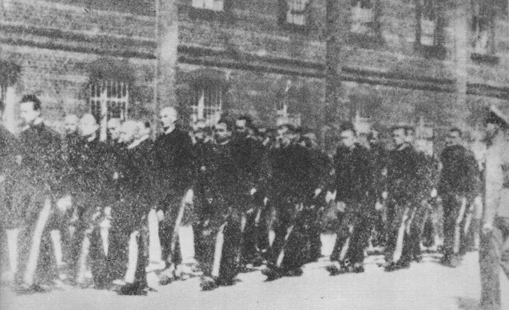 German-occupied Poland. Polish prisoners in Koronowo prison (de: Zuchthaus Krone an der Brahe).